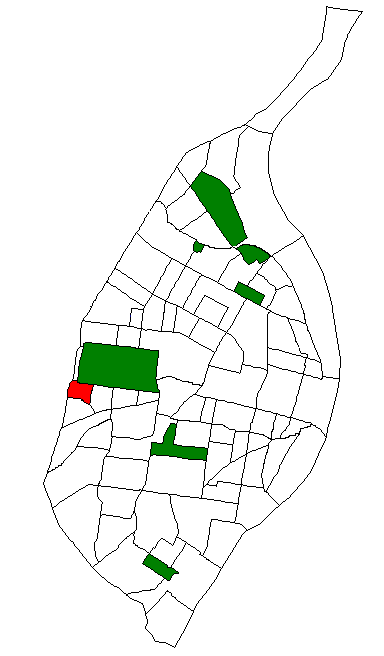 Map of St. Louis Neighborhood #44